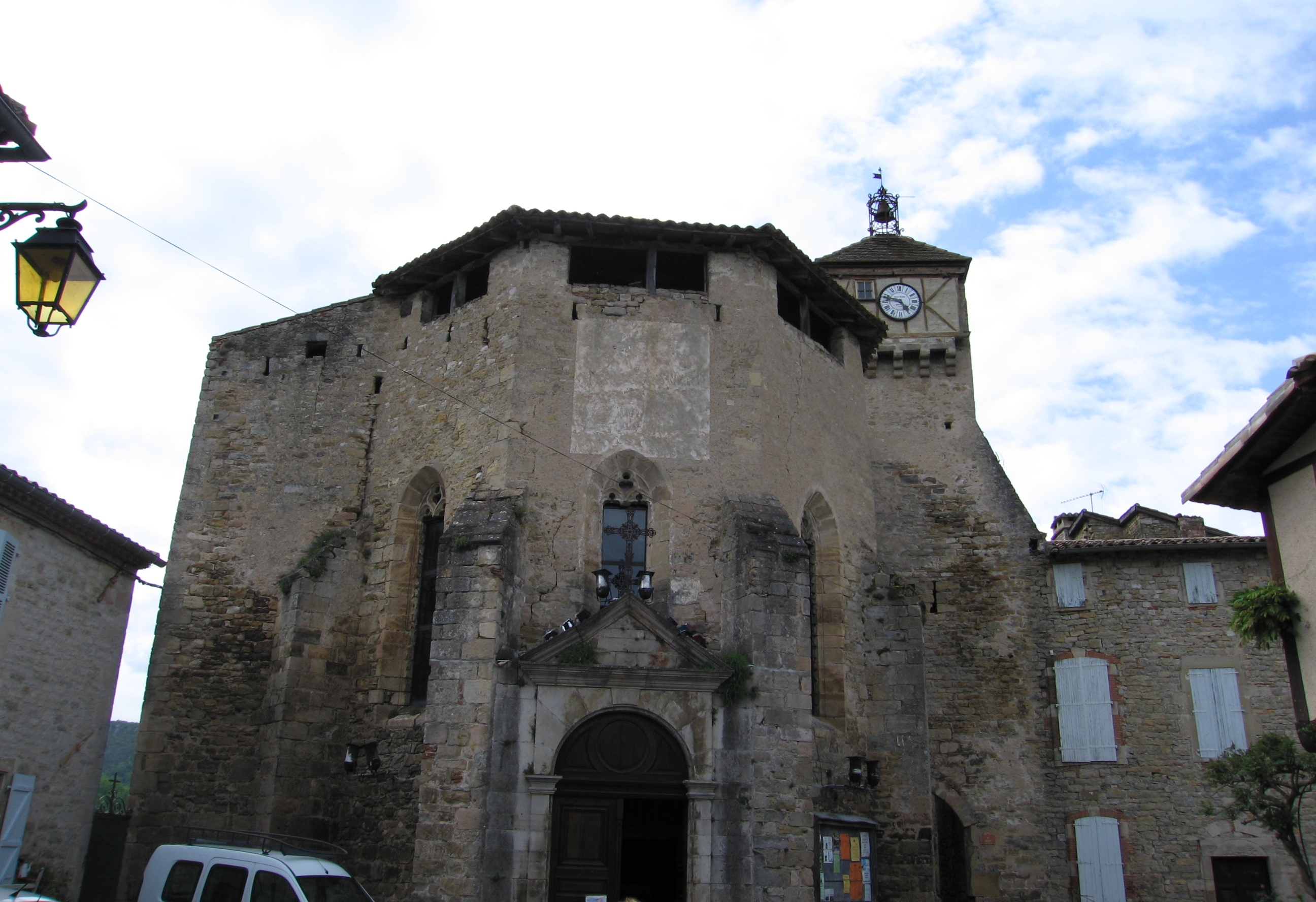 Church of Penne, Tarn, Integrated in the City Wall. The door on the front was later opened and the Church "Reverted".